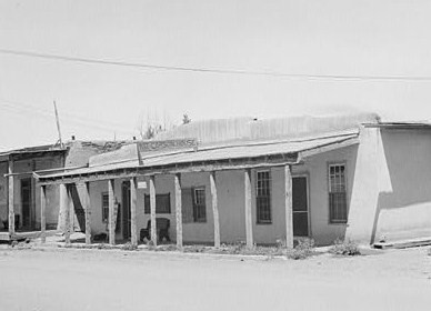 Kit Carson House — Kit Carson Avenue, Taos (Taos County, New Mexico) . Image courtesy of the federal HABS—Historic American Buildings Survey of New Mexico project (cropped).